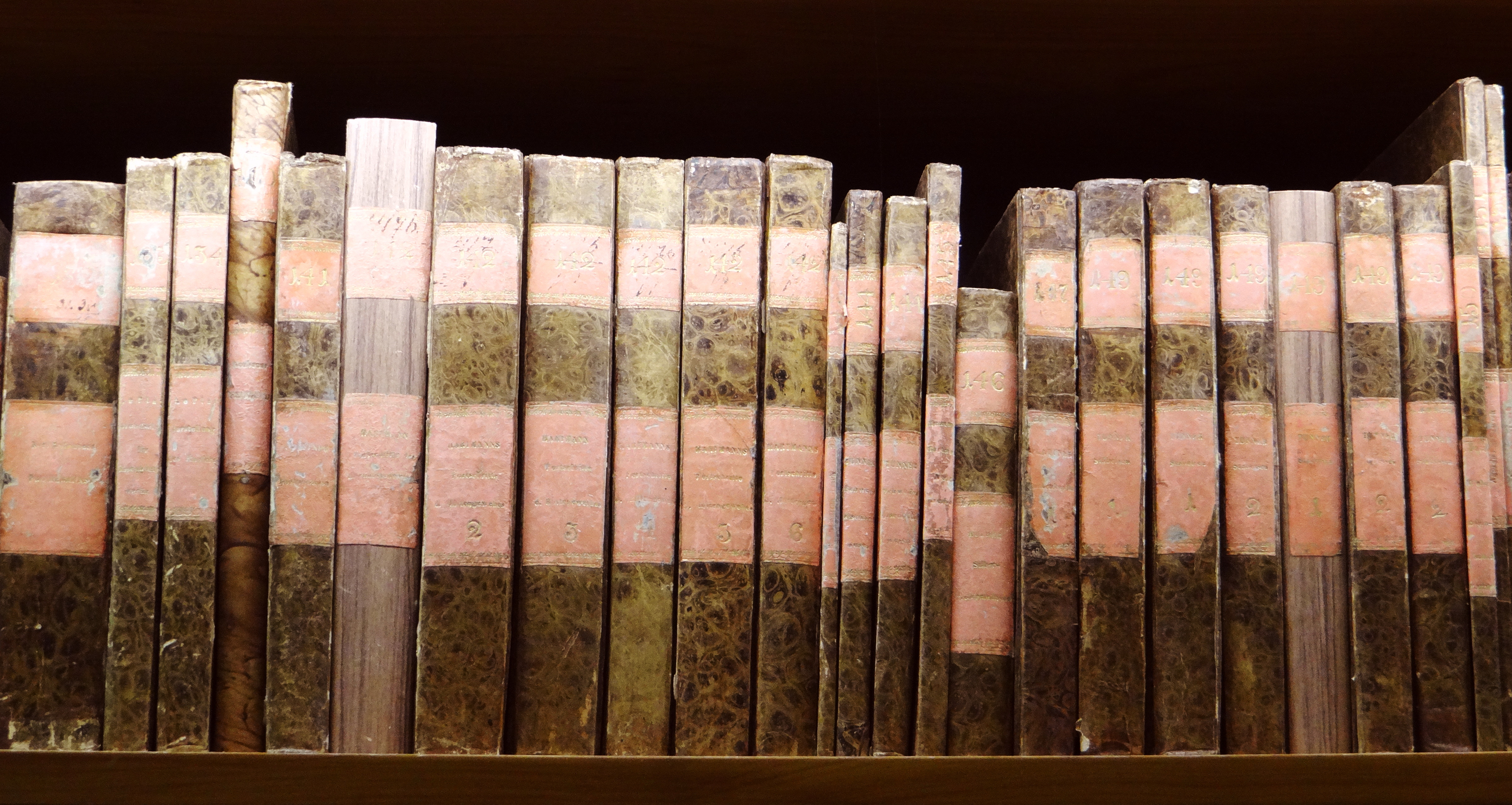 Selmec Museum Library, Miskolc, Hungary, Books from Category 5